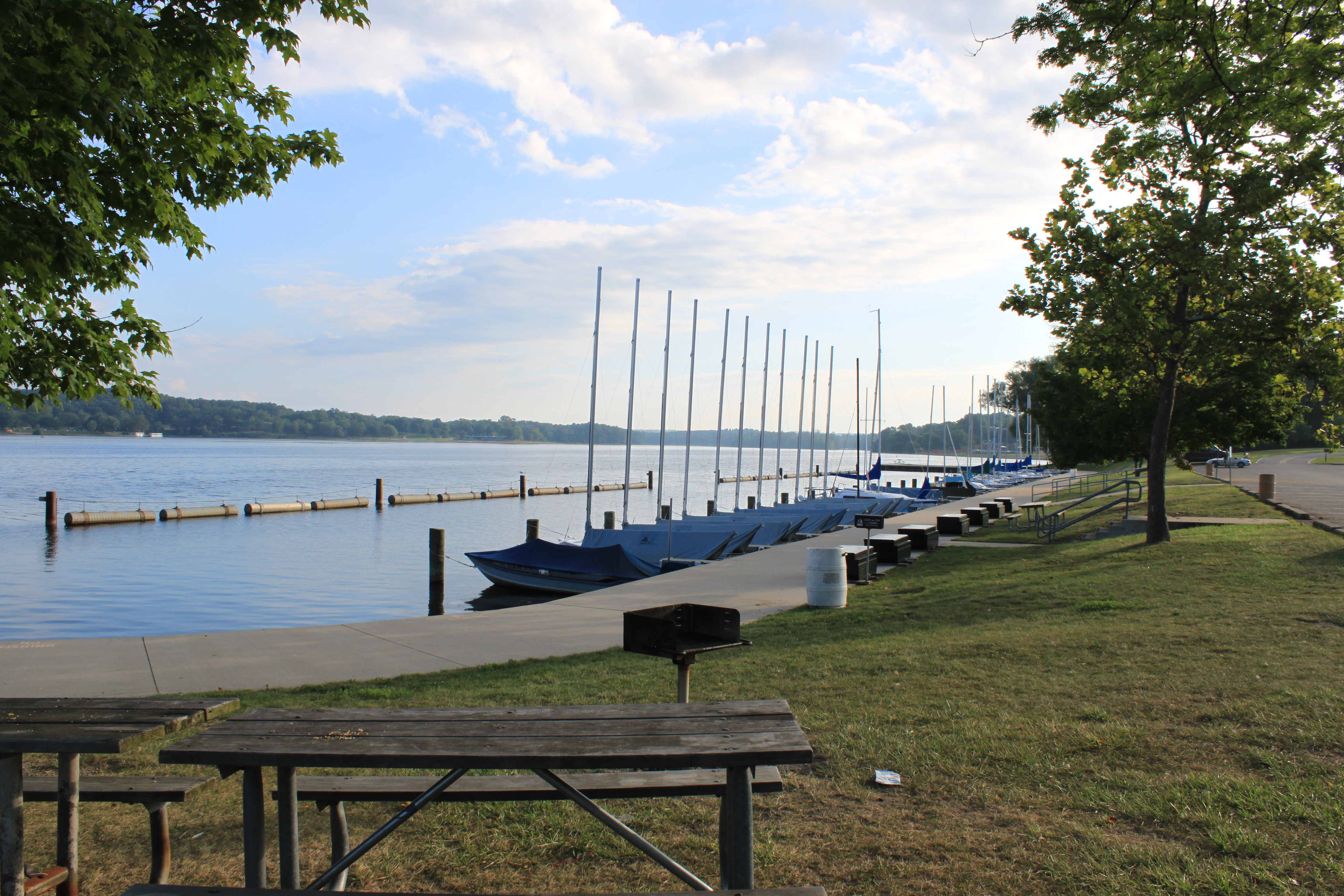 Kensington Metropark, Milford Michigan, east boat launch